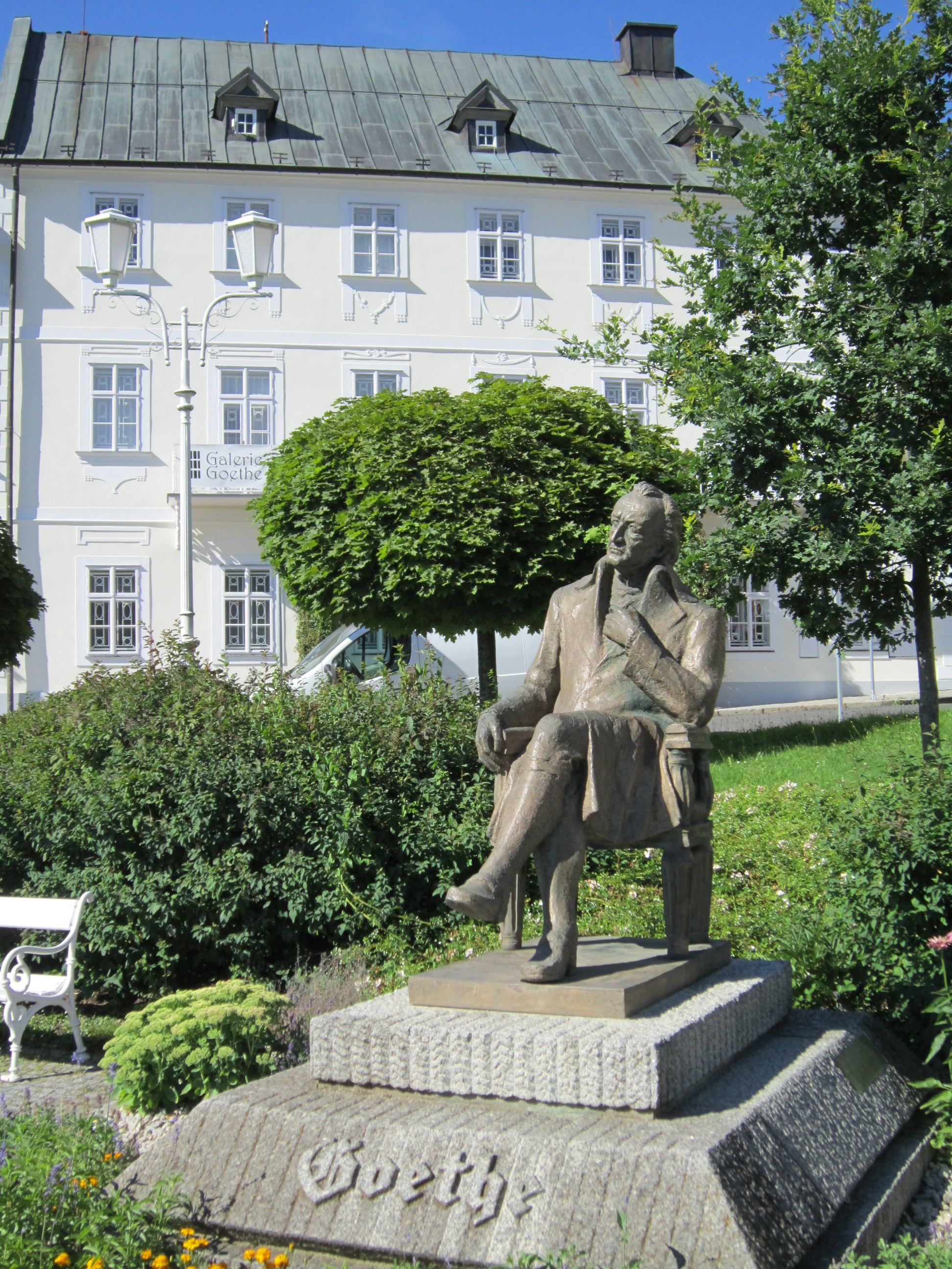 Statue of Goethe in Mariánské Lázně.